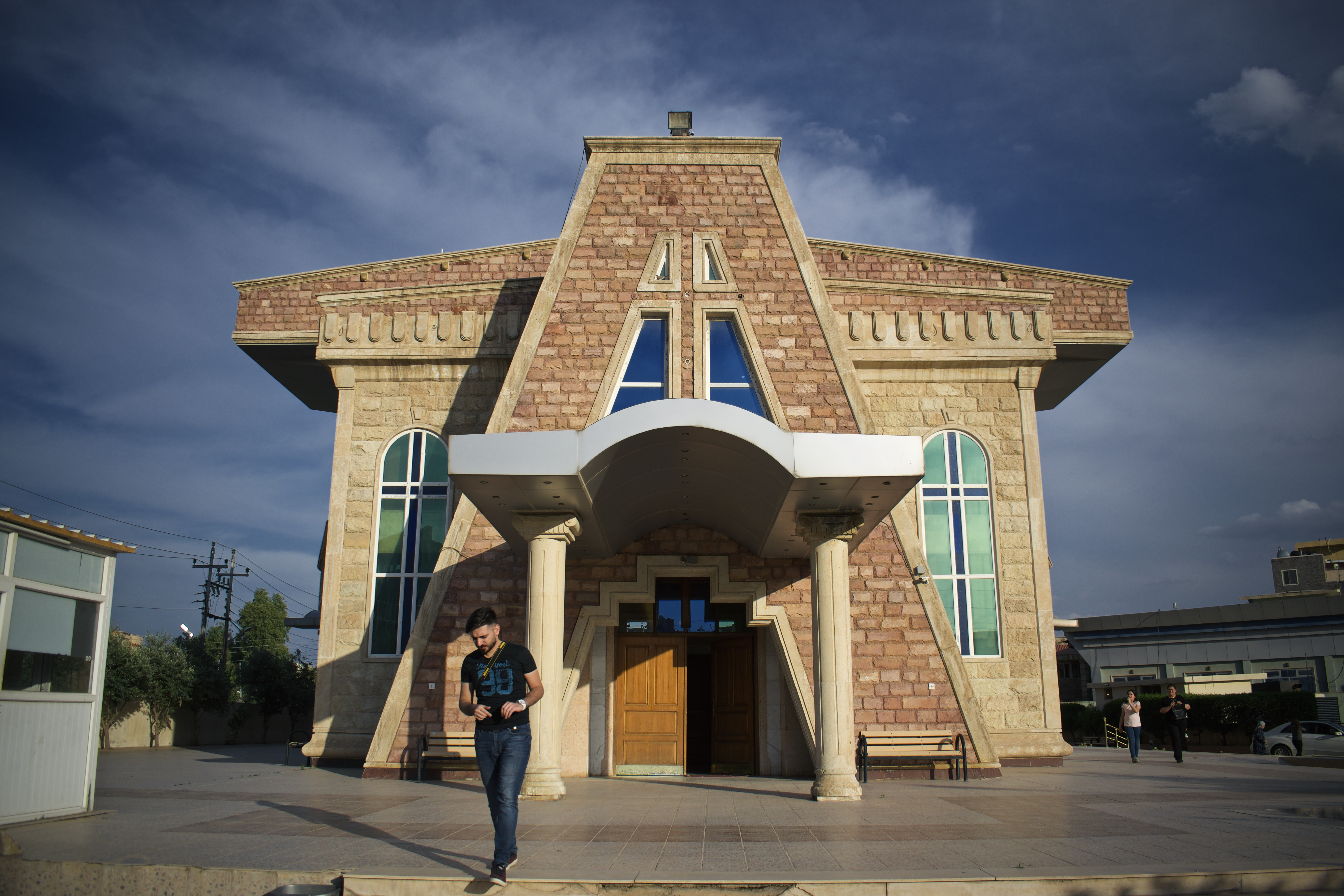 Cathedral of Saint John the Baptist for the Assyrian Church of the East in Ankawa